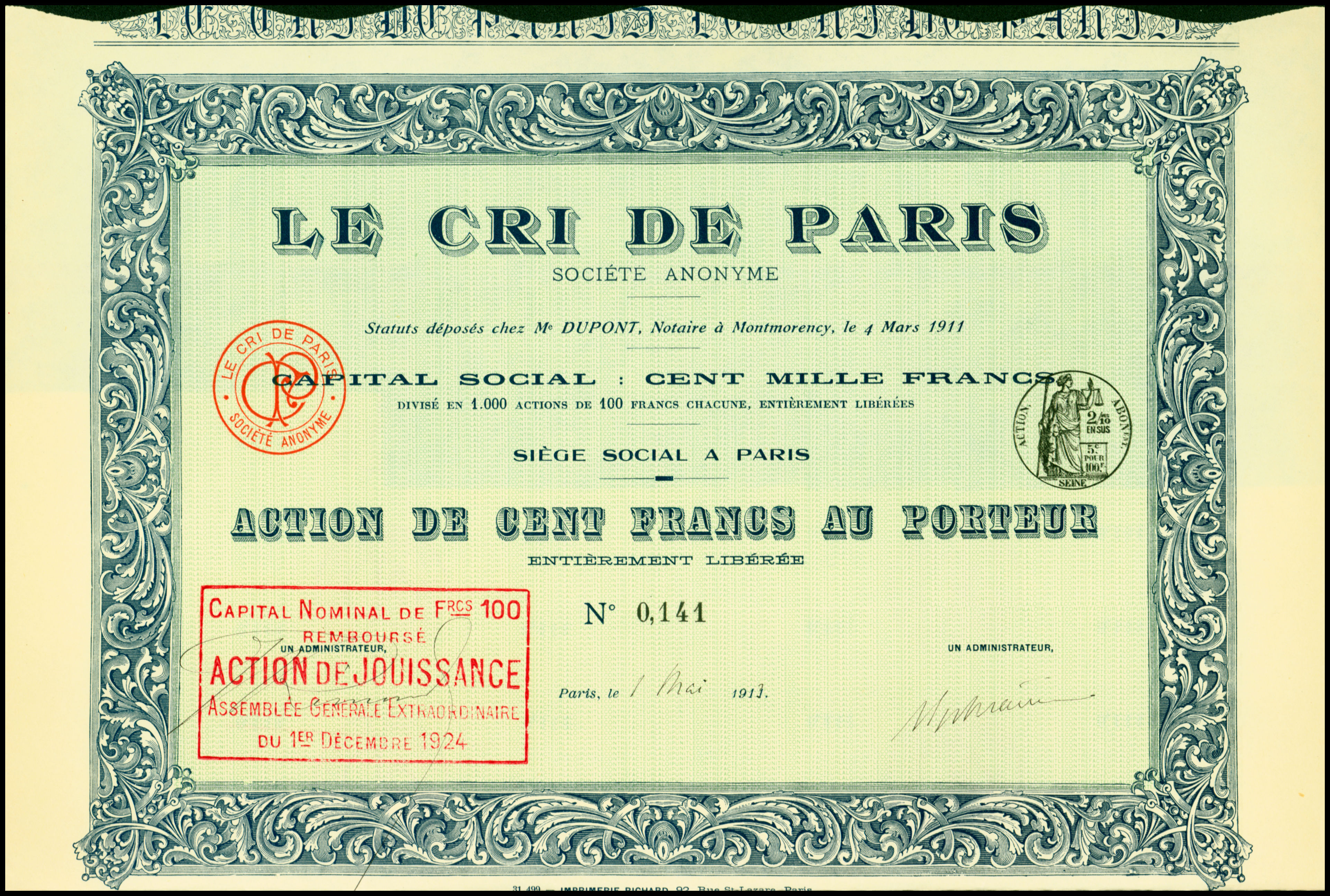 Share of the Le Cri de Paris SA, issued 1. May 1913